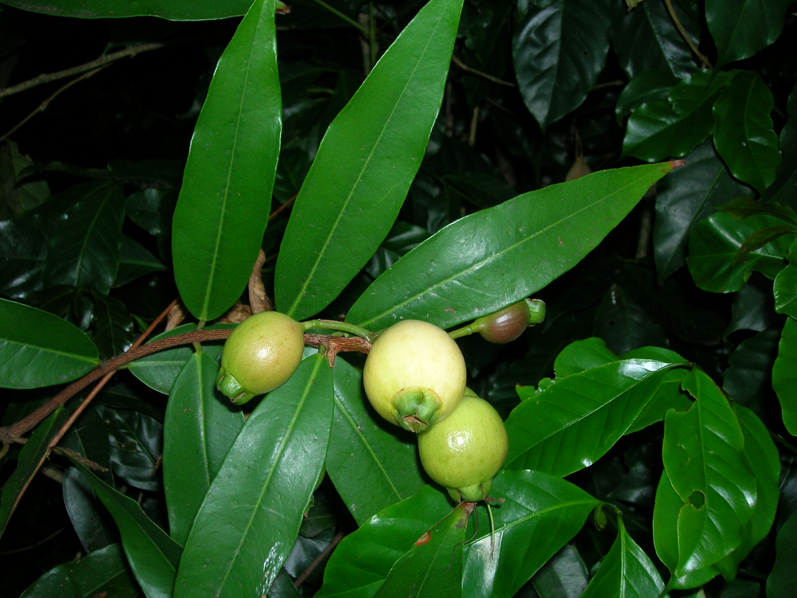 Syzygium jambos (fruit). Location: Maui, Makawao